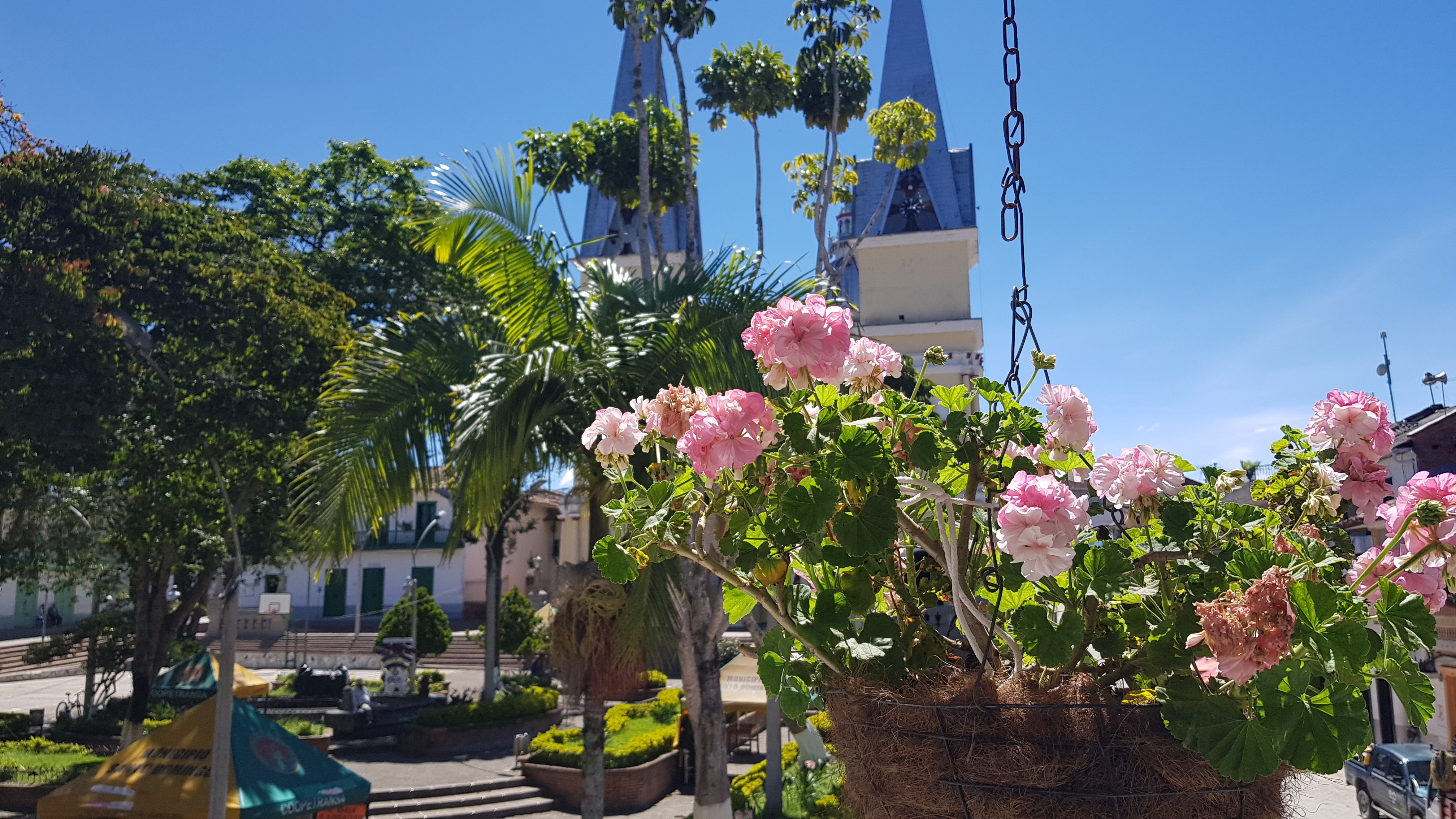 Main Park, Santo Domingo, Antioquia